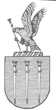 coat of arms of Falcao